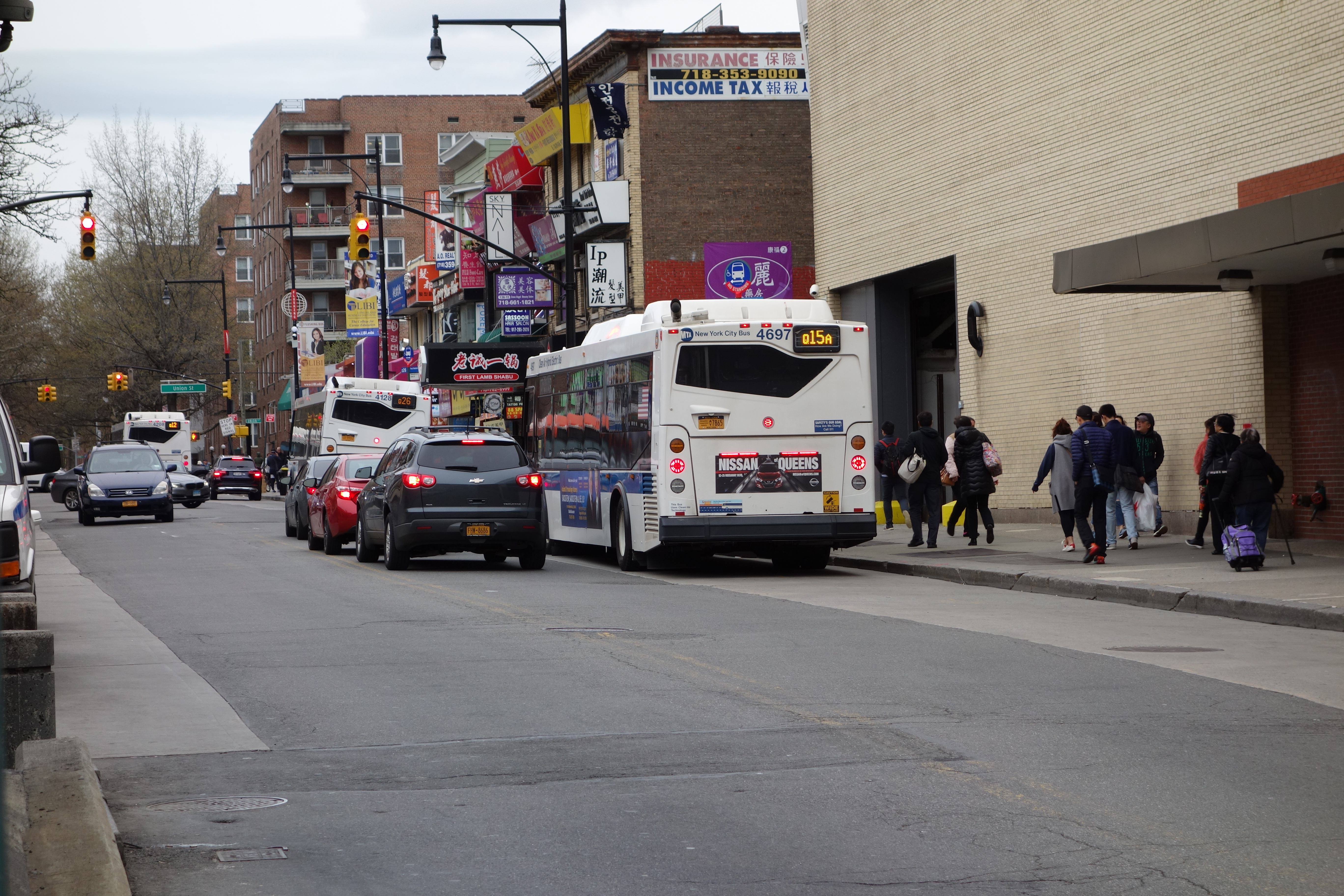 A Beechhurst-bound Q15A bus and an Auburndale-bound Q26 bus (far background) traveling east on Roosevelt Avenue between Main Street and Union Street in Flushing, Queens.